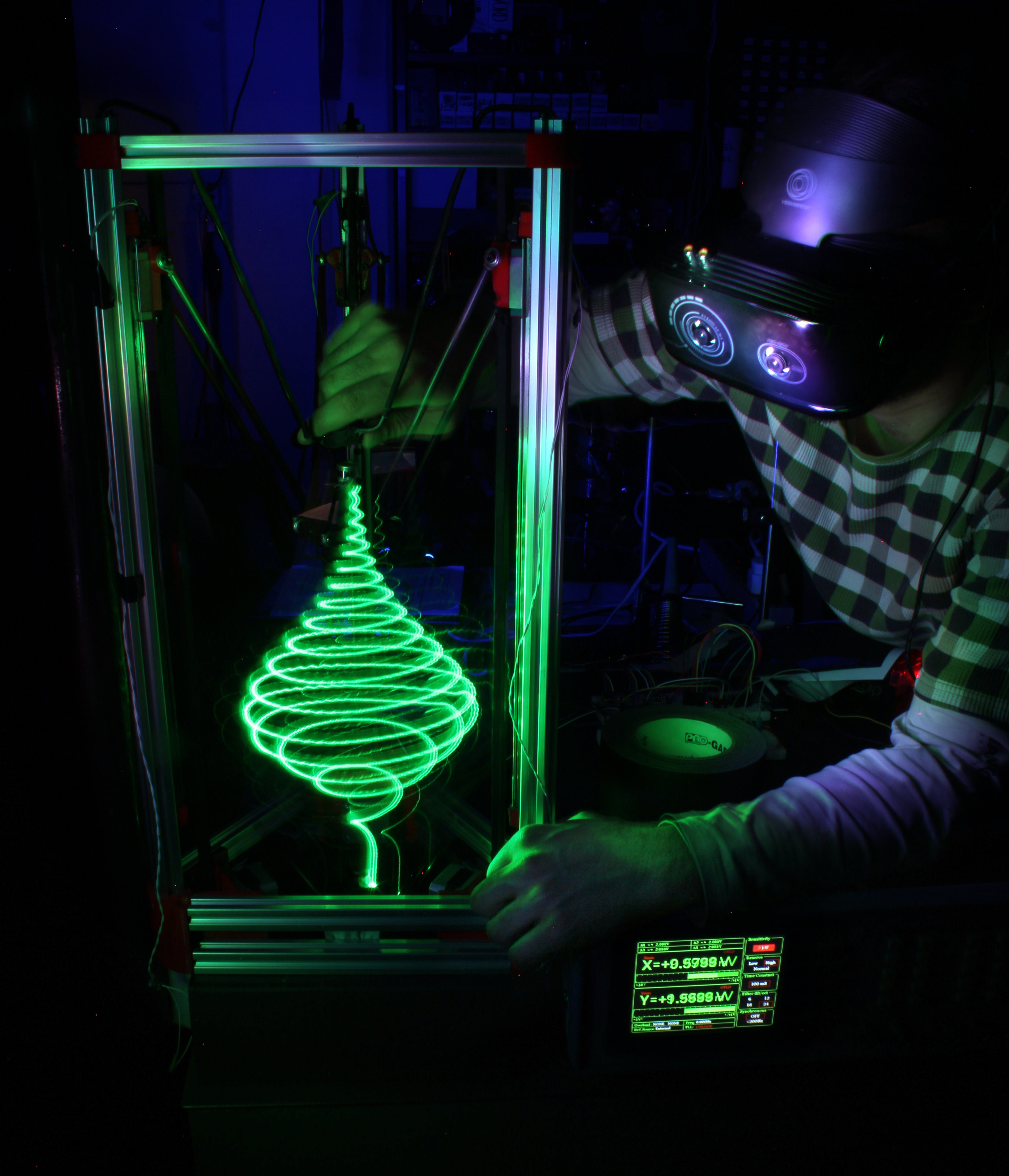 Chirplet function in computer-mediated reality based on long-exposure abakography in Visionertech eyeglass, in Mannlab, visualization, along with SYSUxMannlab lock-in amplifier.